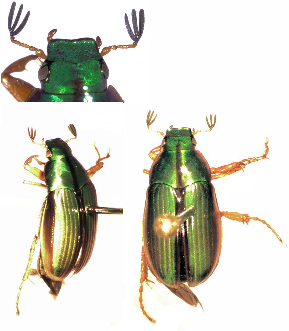 adult male Pyronota festiva